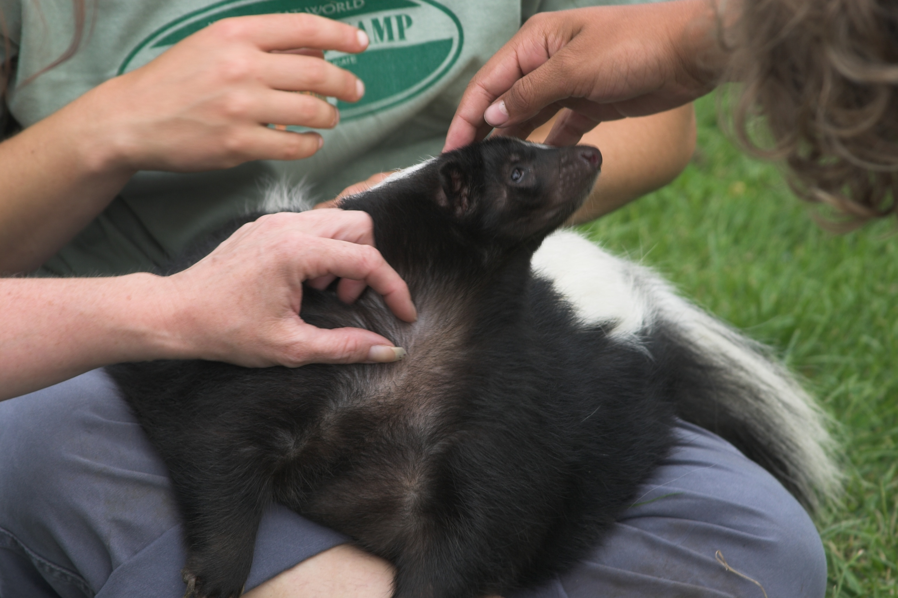 Skunk being cuddled